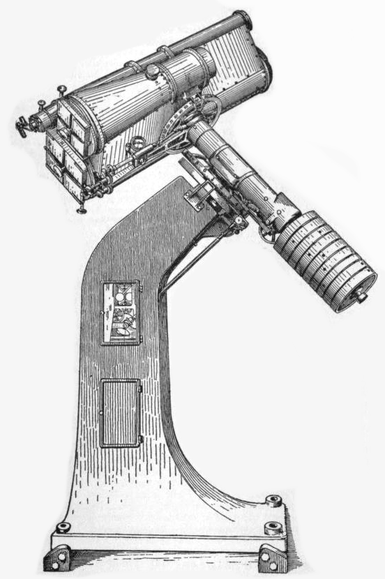 EB1911 Telescope - Fig. 19. Bruce Telescope, Yerkes Observatory